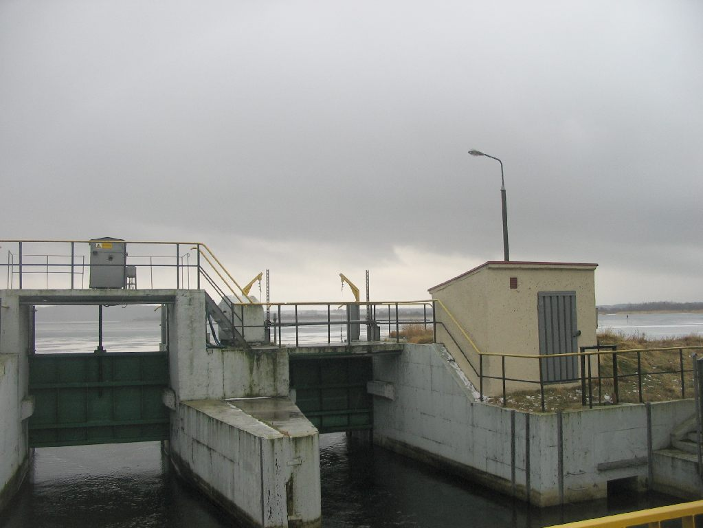 Weir at Piaśnica river coming out from Żarnowiec Lake.